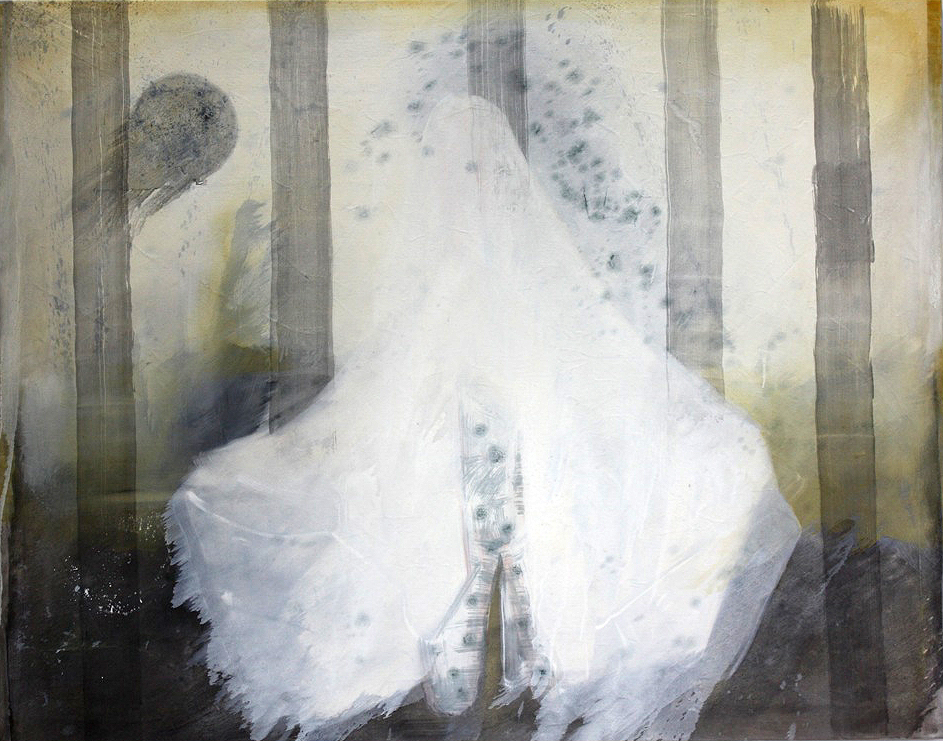 Geist, Öl auf Leinwand 150 x 185 cm, 2012